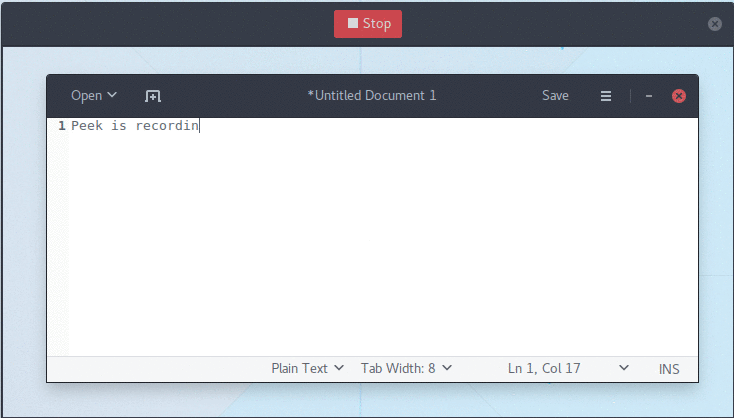 Peek gif recorder